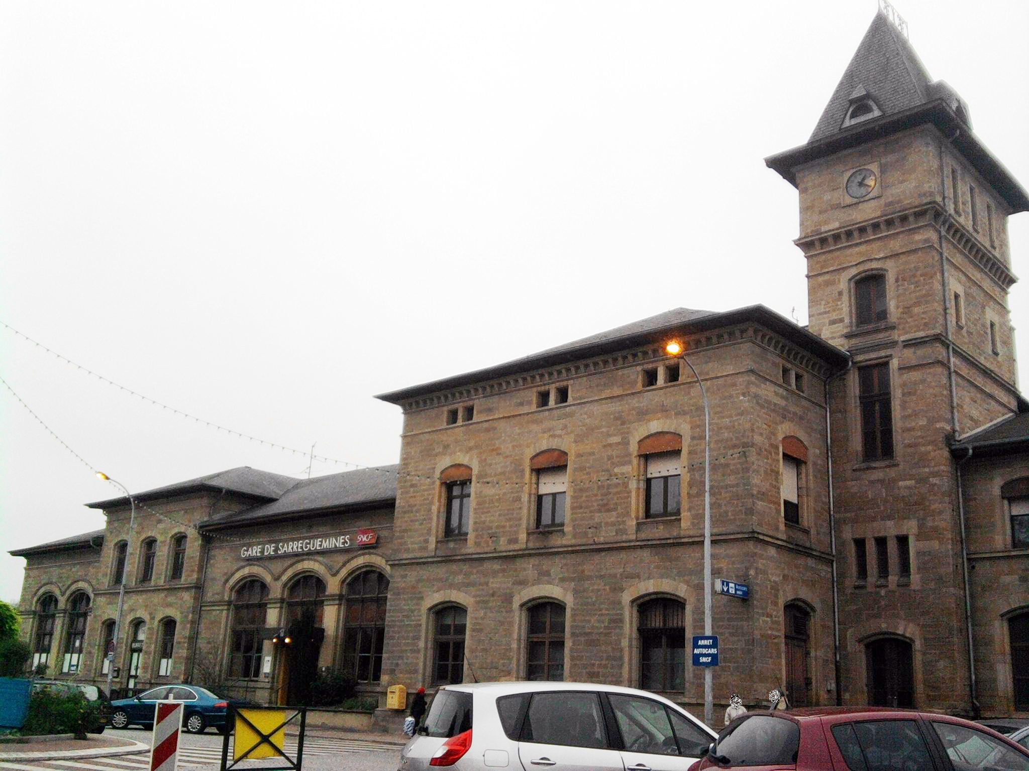 Train station of Sarreguemines, town in Moselle (France).